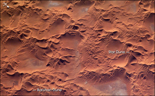 The Issaouane Erg (sand sea) is located in eastern Algeria between the Tinrhert Plateau to the north and the Fadnoun Plateau to the south. Ergs are vast areas of moving sand with little to no vegetation cover. Considered to be part of the Sahara Desert, the Issaouane Erg covers an area of approximately 38,000 km2. These complex dunes form the active southwestern border of the sand sea.The most common landforms in the image are star dunes and barchan (or crescent) dunes. Small linear dunes appear at top left. Star dunes are formed when sand is transported from variable wind directions, whereas barchan dunes form in a single dominant wind regime. The superimposition of two dune types suggests that wind regimes have changed through time. The active nature of this portion of the Erg is well illustrated by this image—smaller dunes form and migrate along the flanks of the larger dunes and sand ridges. Occasional precipitation fills basins formed by the dunes; as the water evaporates, salt deposits are left behind which appear as bluish-white areas.